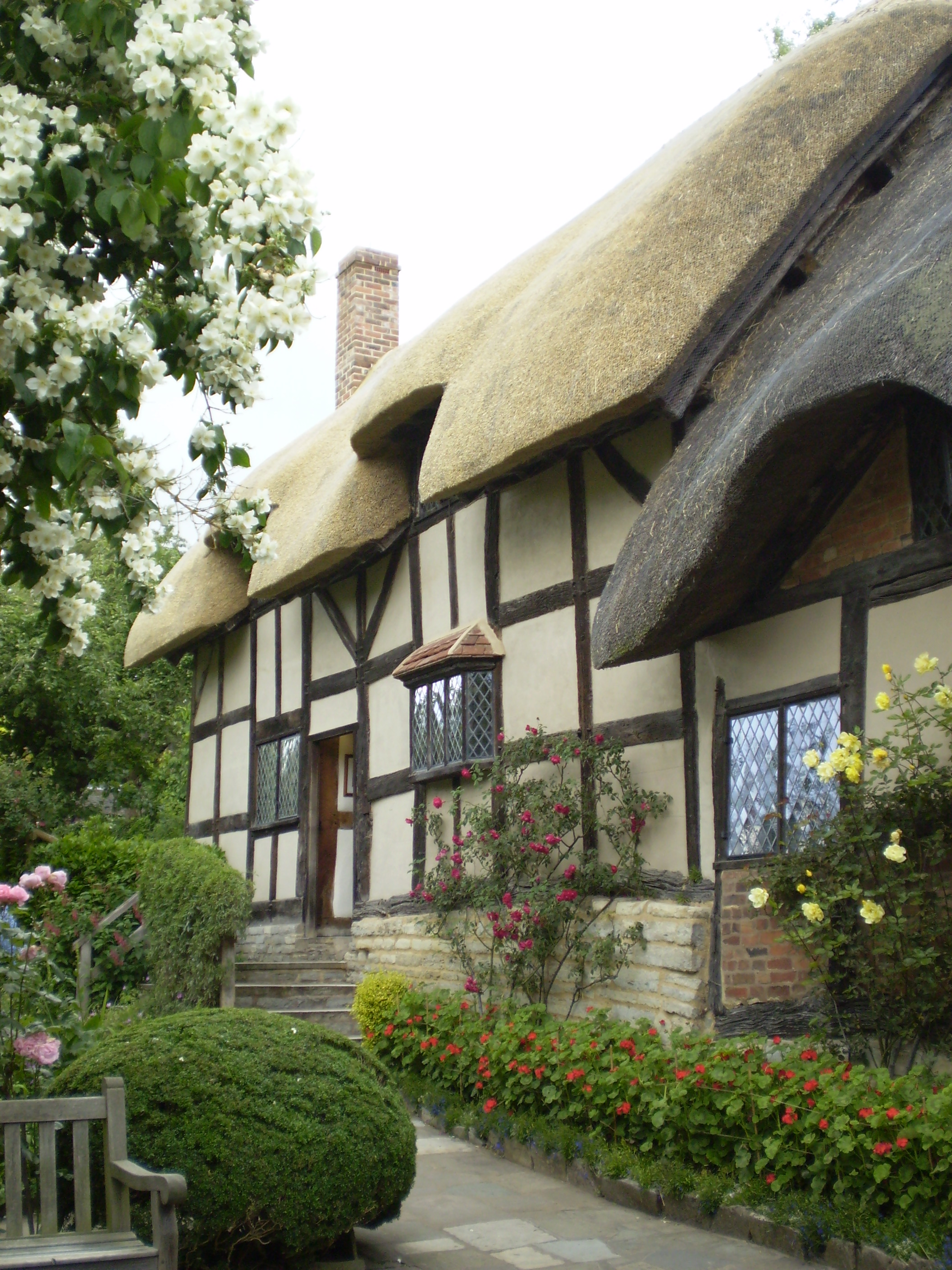 Anne Hathaway's house in 2007, Stratford-upon-Avon, England